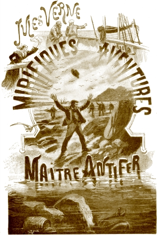 An illustration from Jules Verne's novel "Captain Antifer" (or "The Wonderful Adventures of Captain Antifer", 1894) drawn by George Roux.